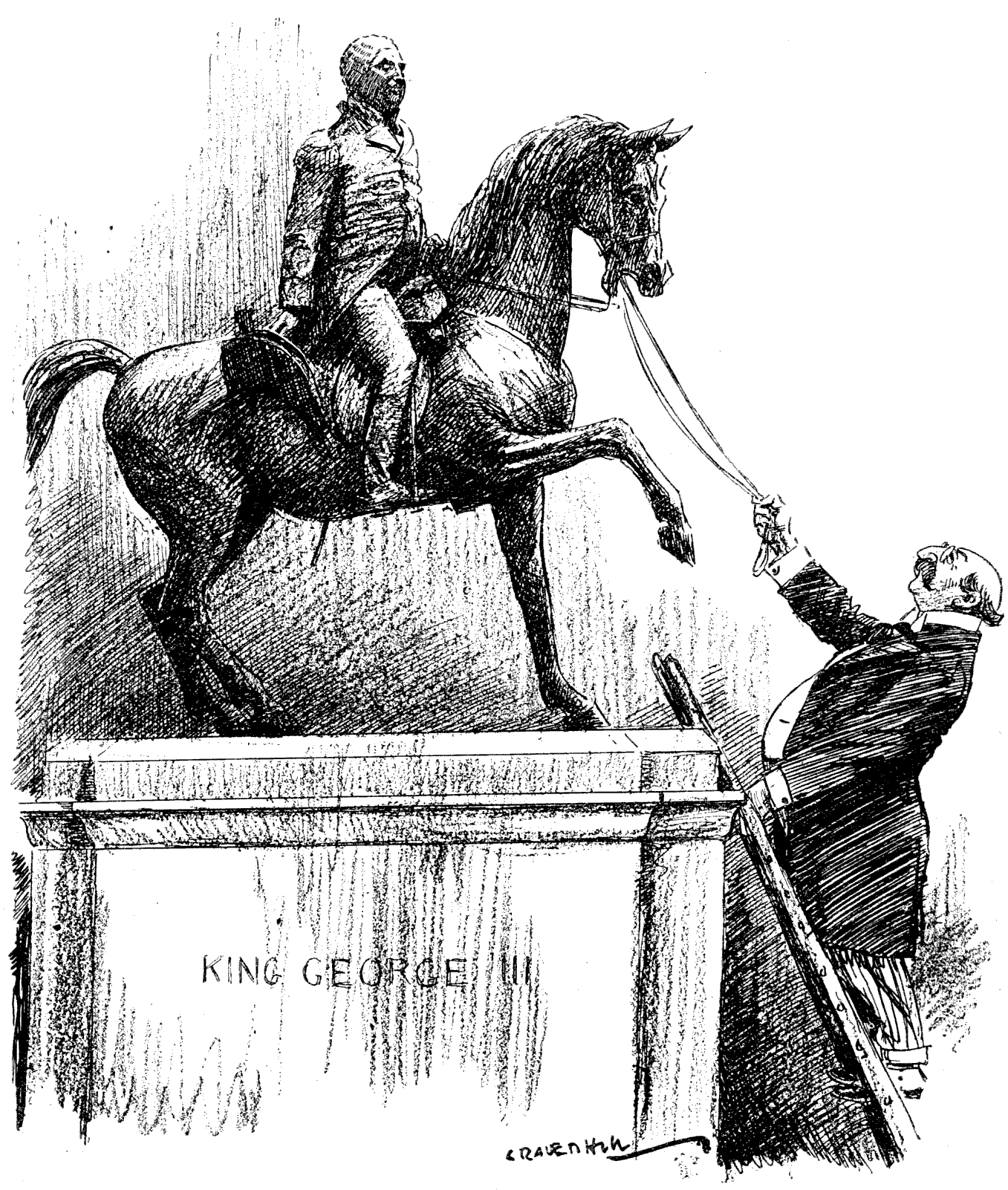 Alfred Mond cartoon from Punch - Project Gutenberg eText 16707)